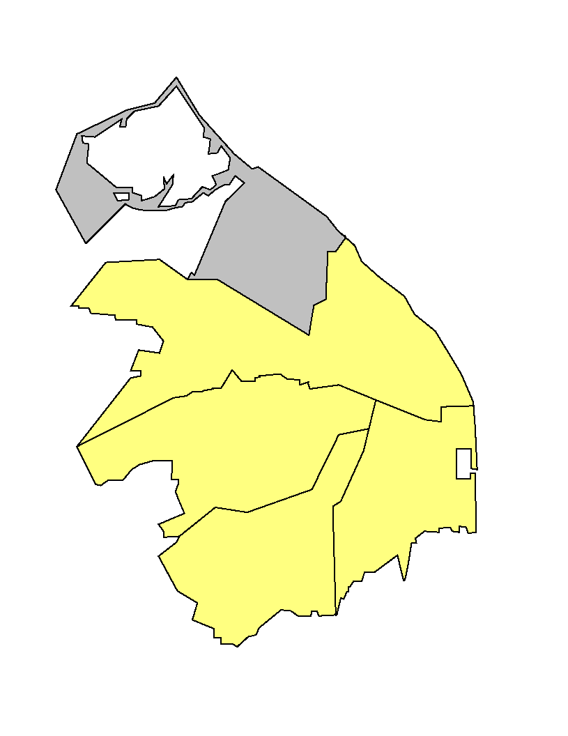 Localidad Riomar